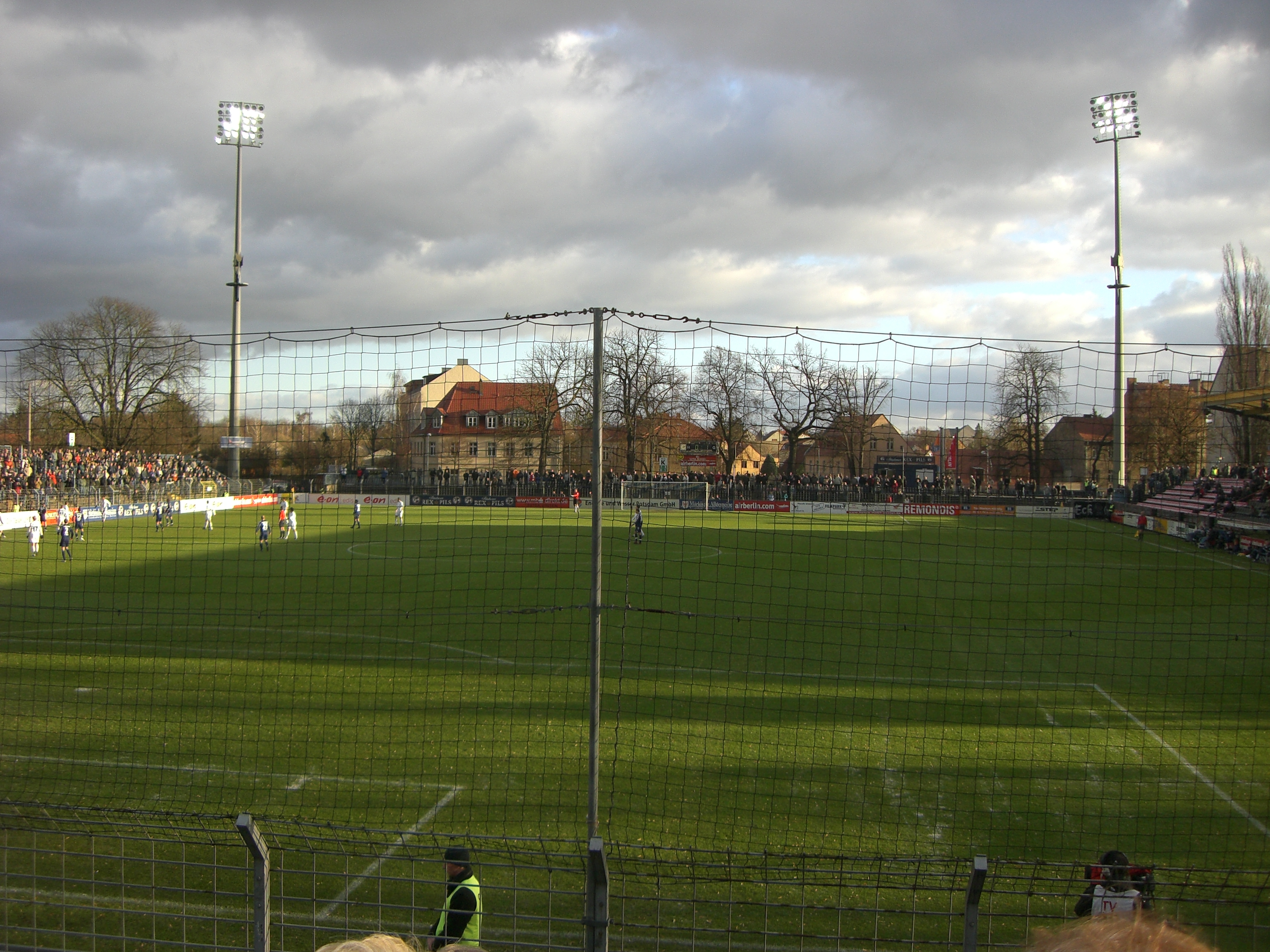 Karl Liebknecht stadium, home of German football club Babelsberg 03, in a third league match vs. Kickers Emden in Dec. 2007. The floodlight masts can be turned down halfway and usually are while no match takes place. This is to ensure the visibility of the Babelsberg Park (UNESCO world heritage site) and the rest aof the city of Potsdam from the nearby Flatow Tower.